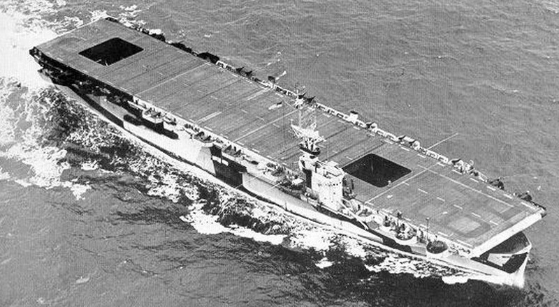 USS Ommaney Bay (CVE-79) underway off Hawaii with lifts lowered, July 1944. Note additional width of after lift, enabling non-folding aircraft as the older F4F Wildcats to be brought up from and taken down to the hangar deck. She was camouflaged in Measure 33, Design 15A